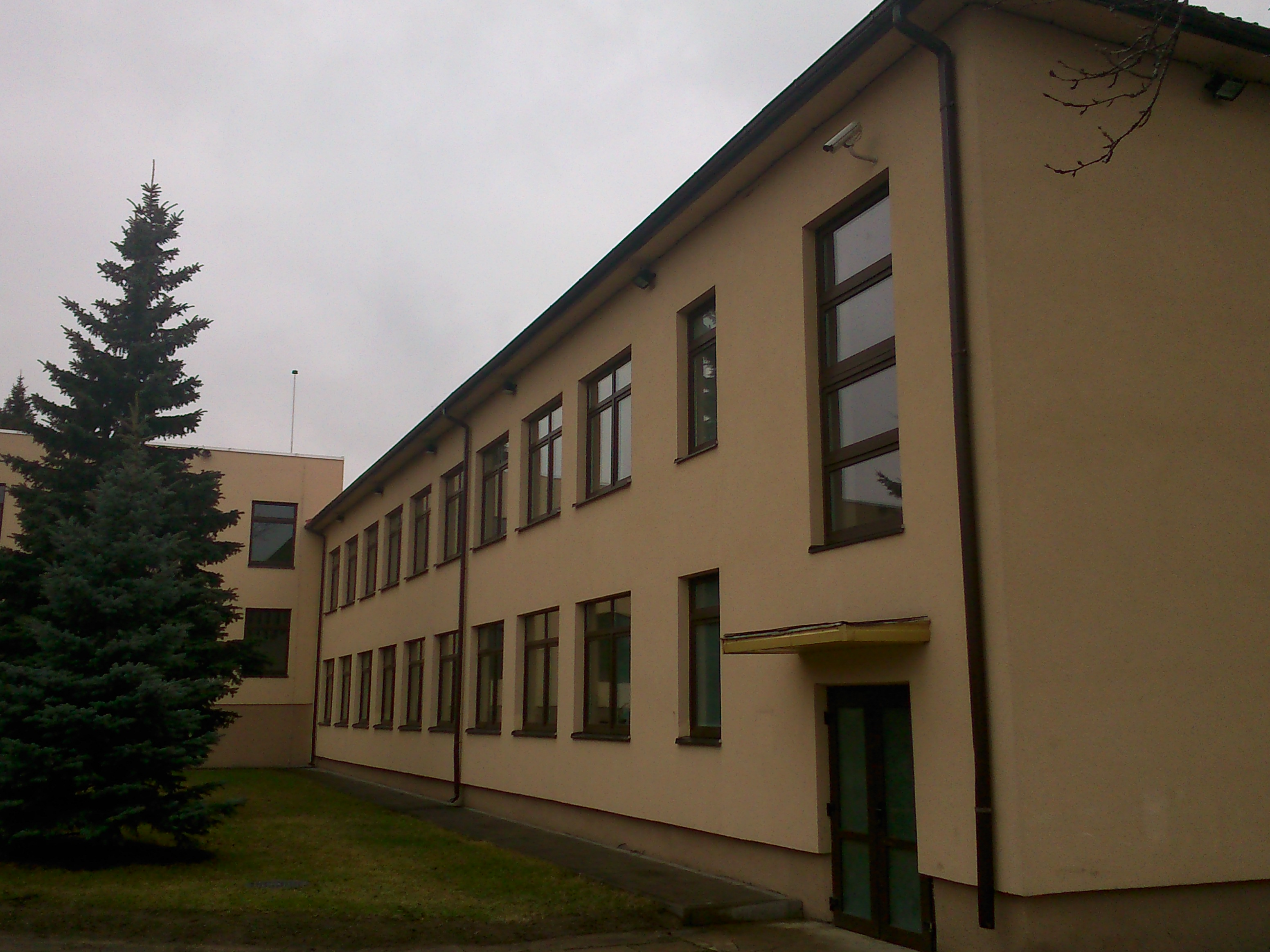 Lietavos pagrindinė mokykla